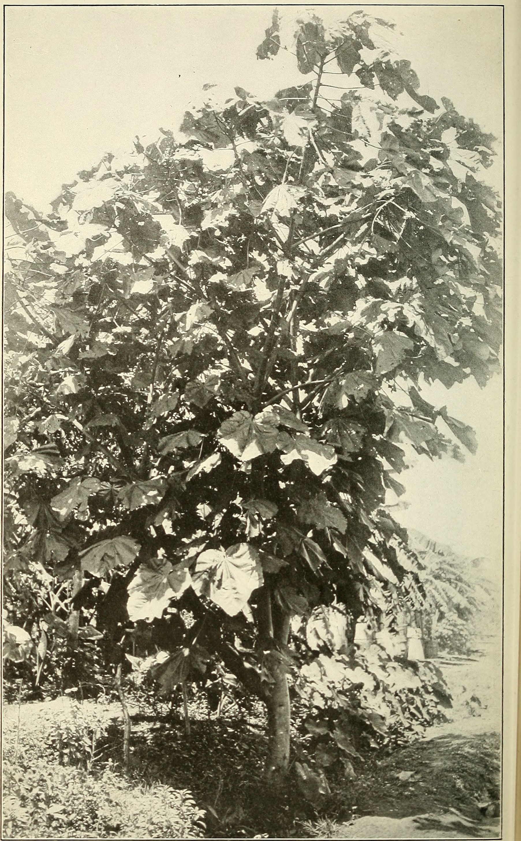 Title: Economic plants of Porto Rico Year: 1903 (1900s) Authors: Cook, O. F. (Orator Fuller), 1867-1949; Collins, G. N. , (Guy N. 1872-1938 Subjects: Botany; Botany, Economic Publisher: Washington, Govt. Print Off. Text Appearing Before Image: Contr. Nat. Herb., Vol. VIII. Plate XLVII. Text Appearing After Image: Cork Wood 'Ochroma lagopus'. Near Ponce.